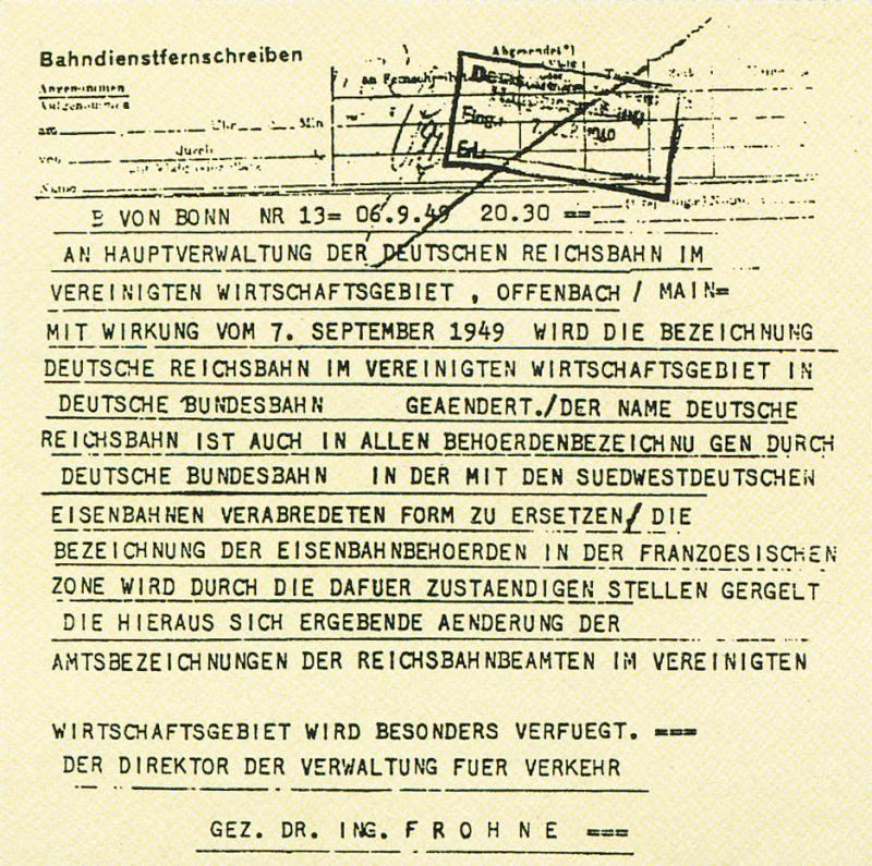 Railway telegram regarding the foundation of the Deutsche Bundesbahn, September 7 1949